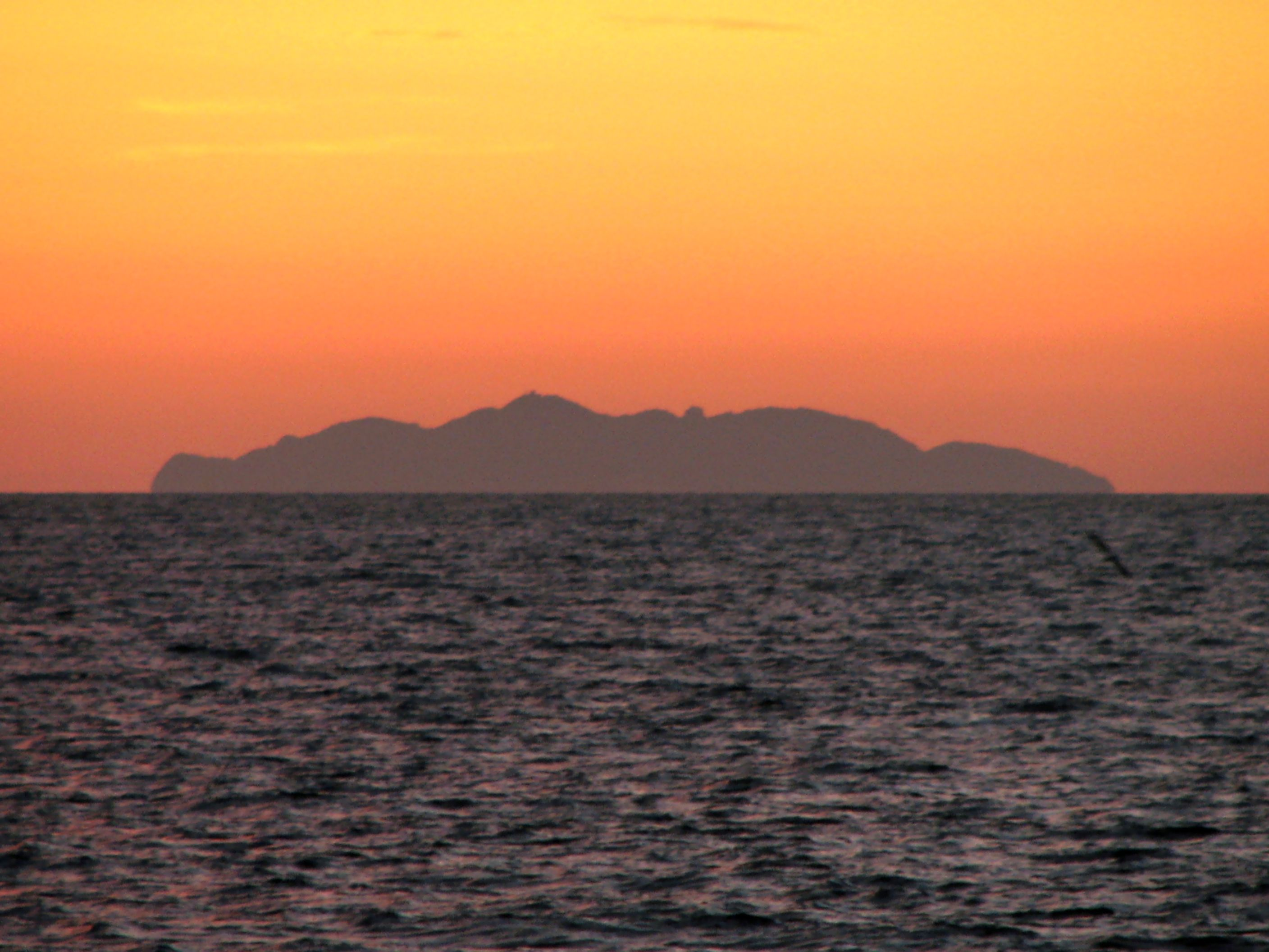 The Italian island of Gorgona